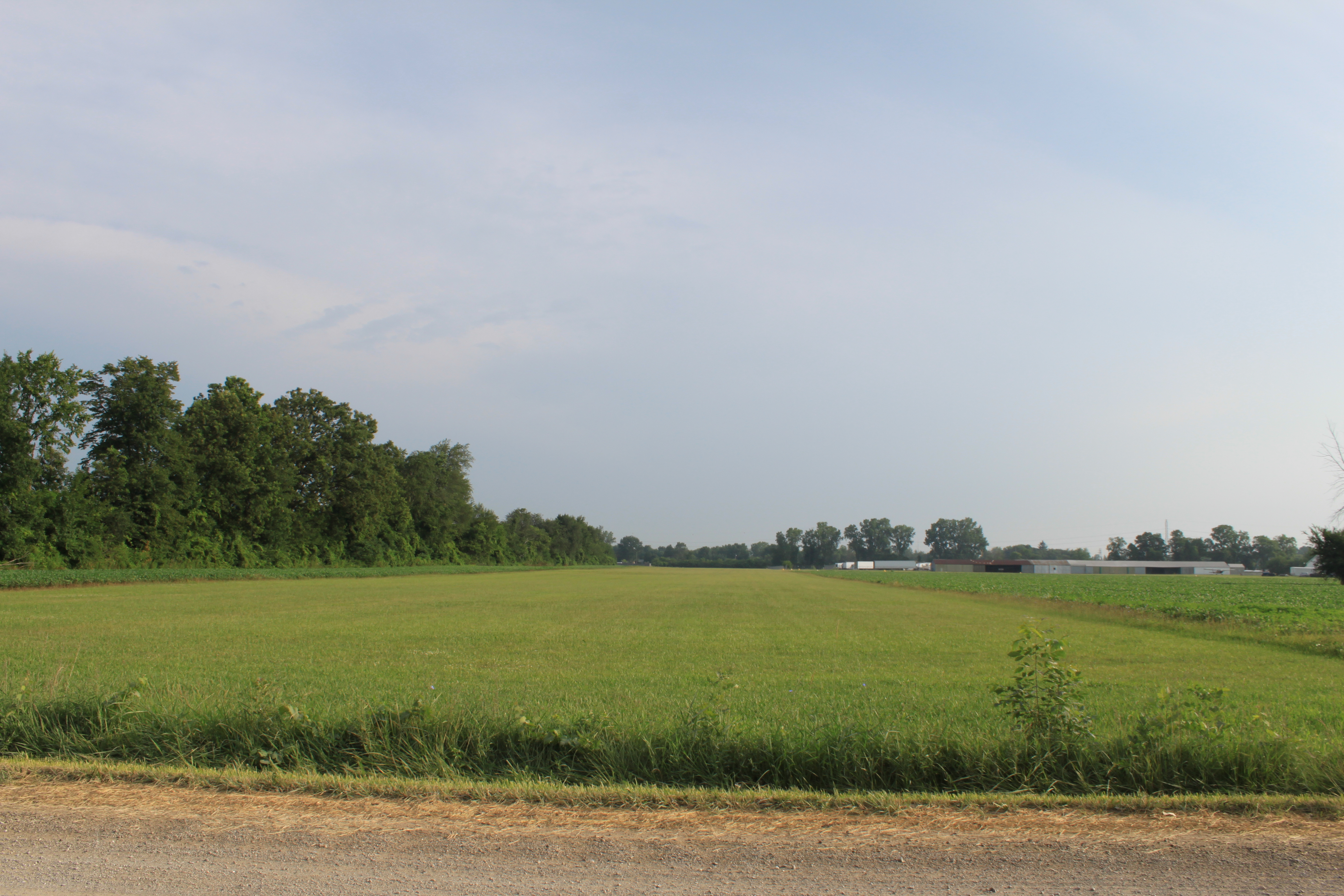 Belleville Michigan Airport, 18/36 runway from Bemis Road